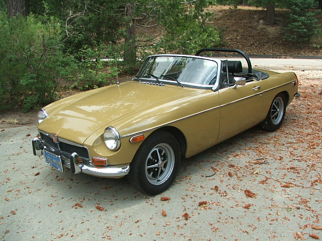 1972 MGB harvest gold